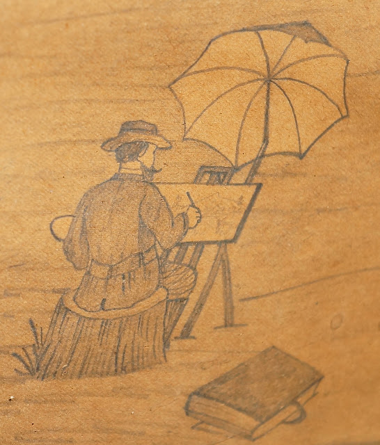 Ferdinand A. Brader, self-portrait